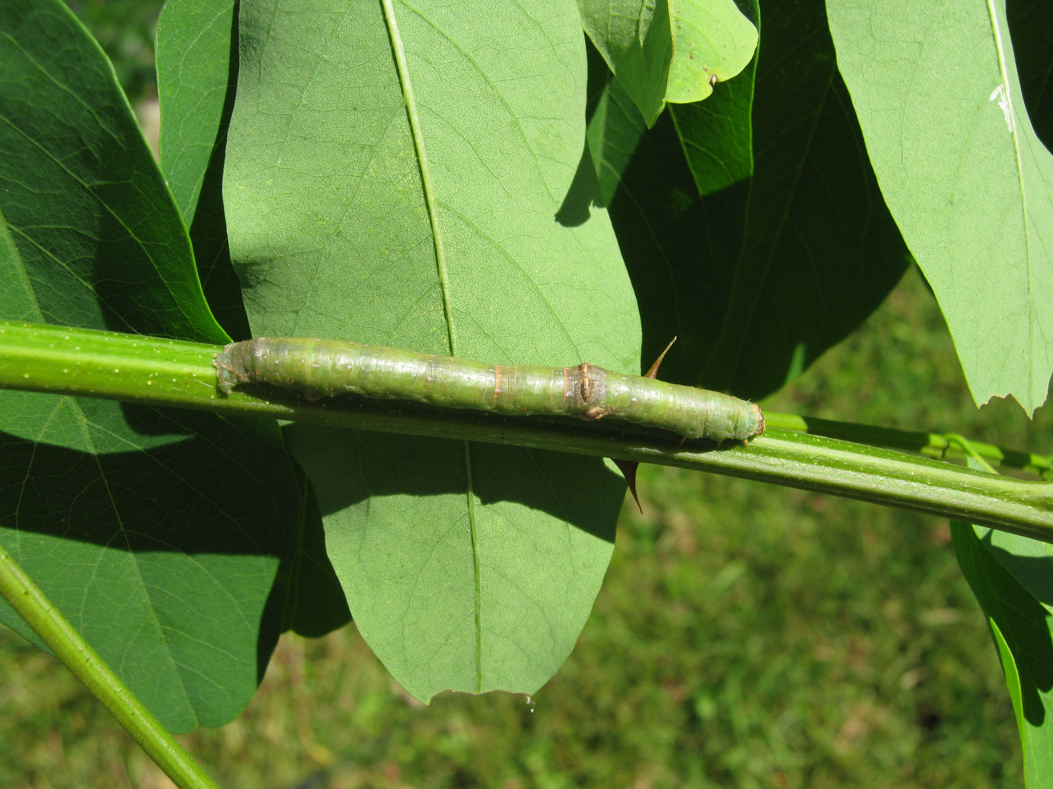 Caterpillar of geometrid moth, Iridopsis defectaria (Brown-shaded Gray Moth - Hodges#6586). Pennypack Ecological Restoration Trust, Montgomery County, Pennsylvania, USA. ID corrected to Iridopsis defectaria